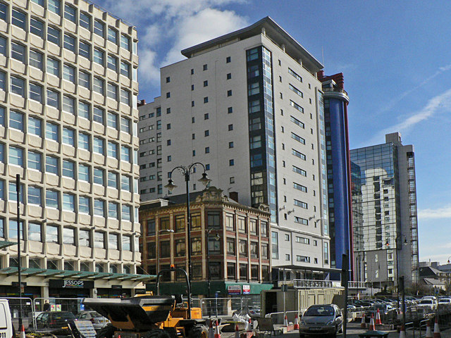 The big squeeze! Reminiscent of scenes from New York where 'brownstone' buildings are squeezed between skyscrapers. This is Churchill Way Cardiff though, not Manhattan, so the skyscrapers have a long way to go yet!